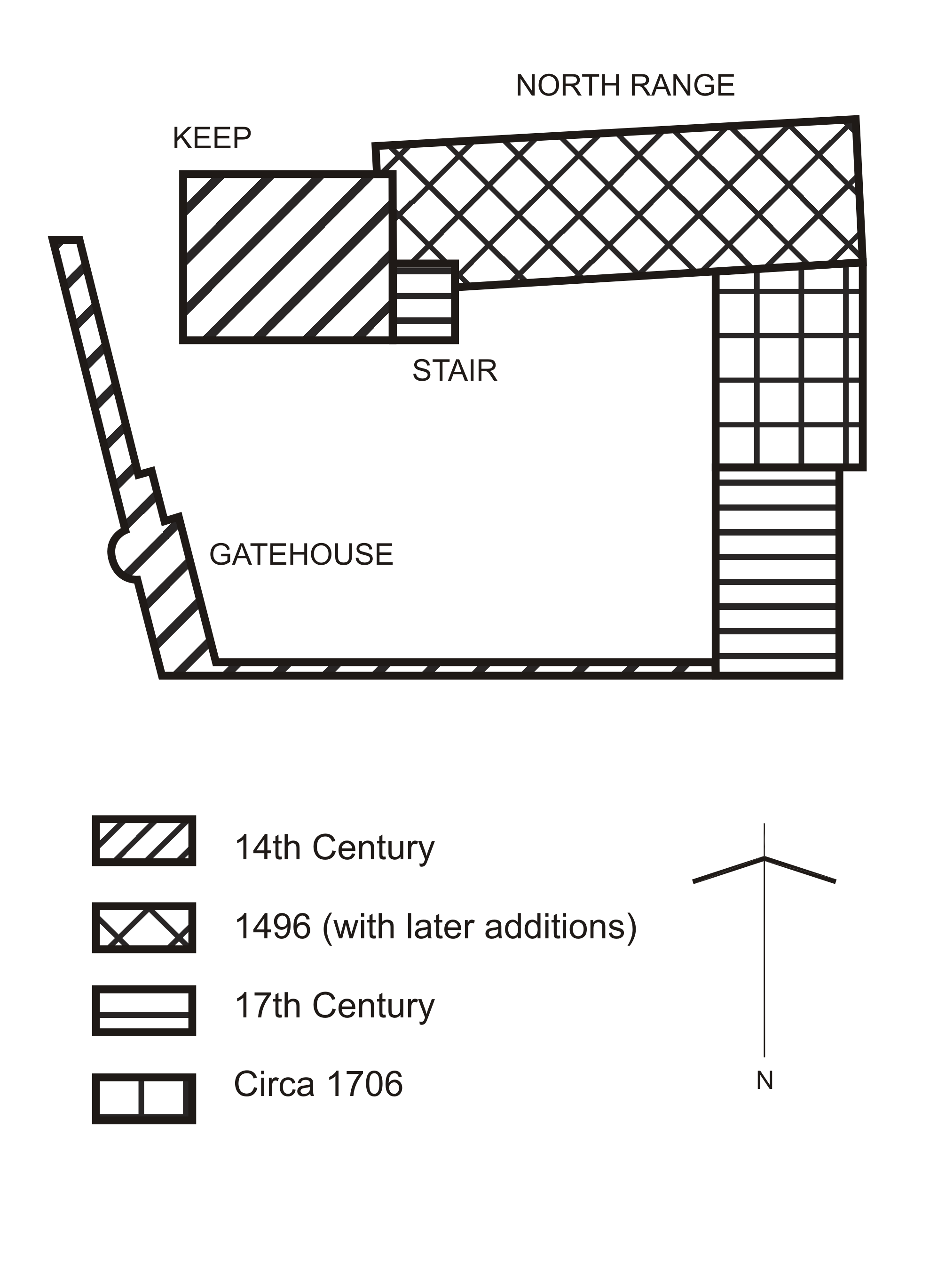 Floor plan of Balgonie Castle, Fife, Scotland